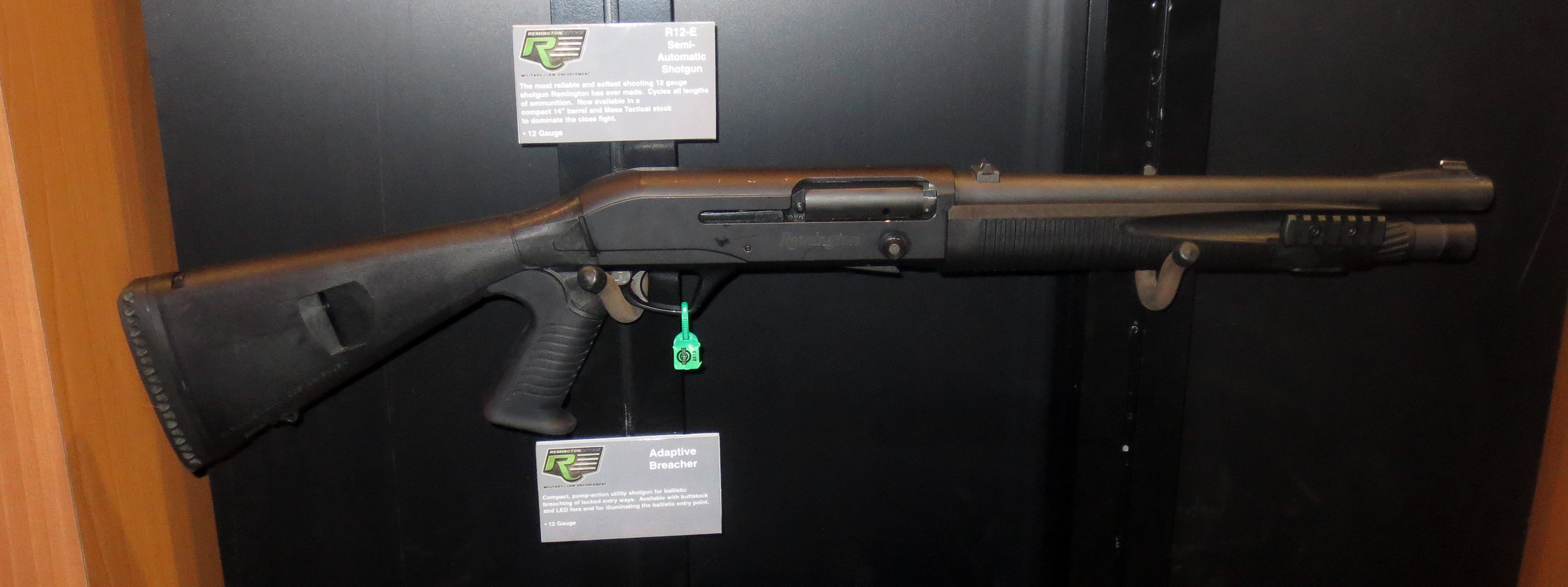 Based on the Versa Max semi-automatic shotgun, the R12 features a Mesa Tactical Urbino® stock and Mohawk™ modular forend. It's been in development for 3½ years. As soon as I get my Nevada ID in hand, I'll begin the paperwork for the NFA stamp to buy one of these babies.